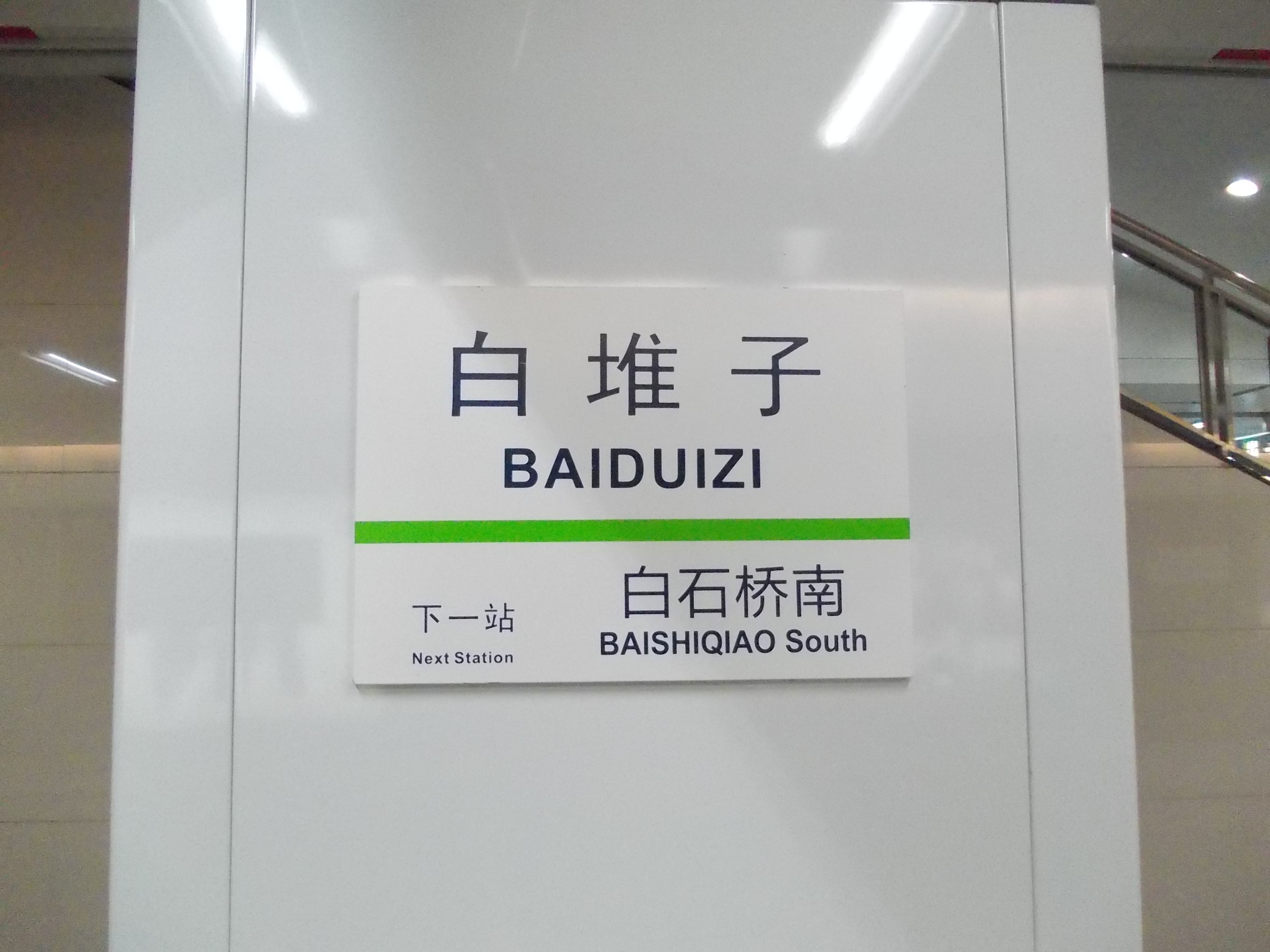 Beijing Subway - Baiduizi Station - Sign